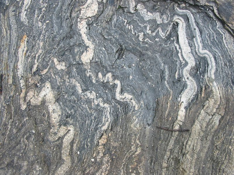 Siim Sepp, 2006 Photo is taken during the summer of 2006 in Norway near Geirangerfjord.